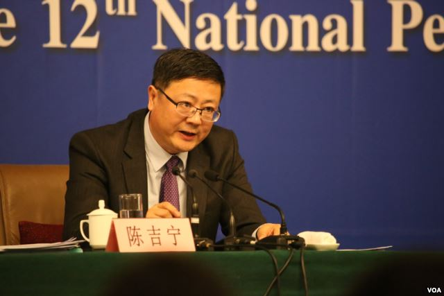 Chen Jining